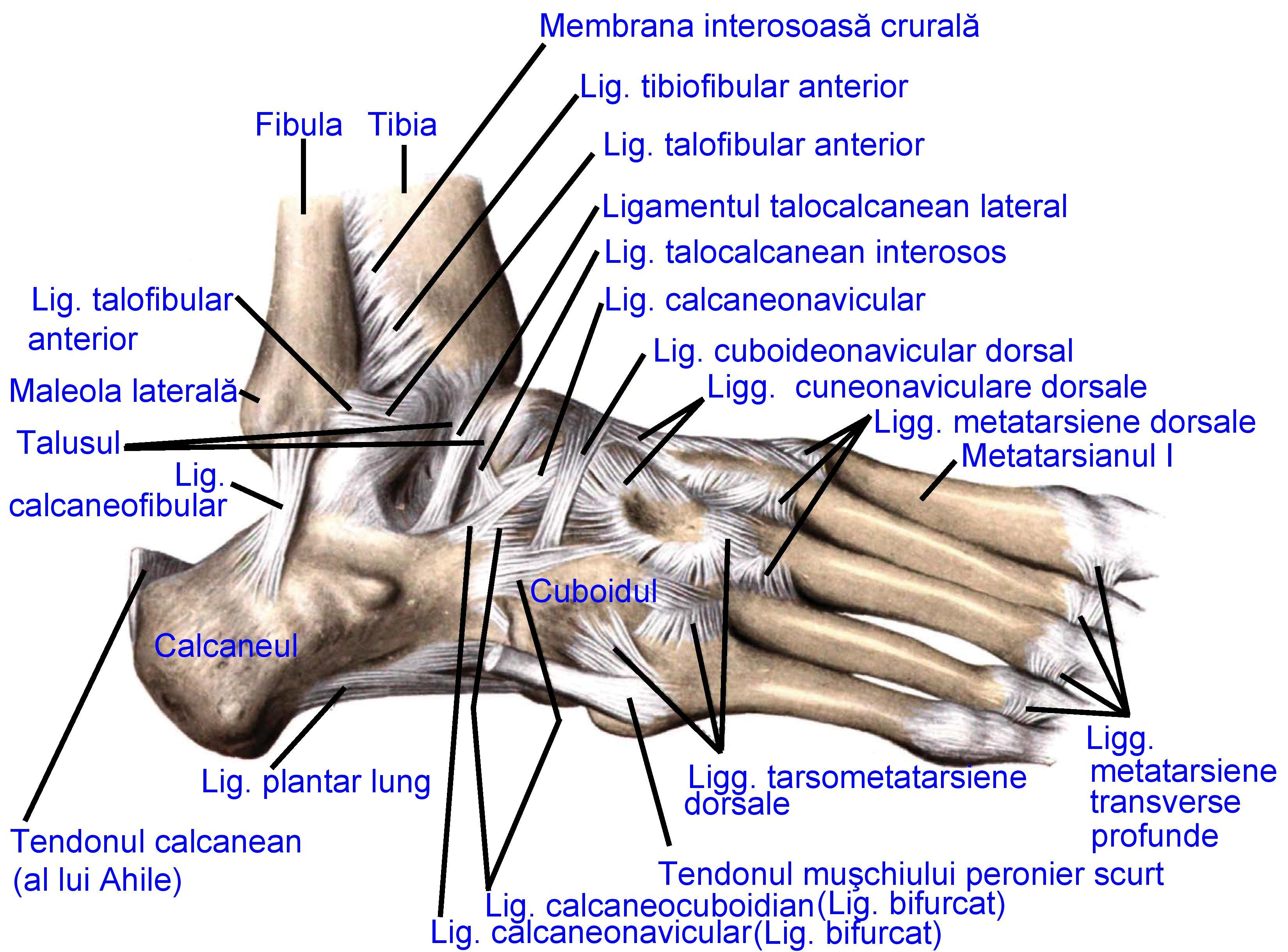 Ligaments of the lateral aspect of the foot